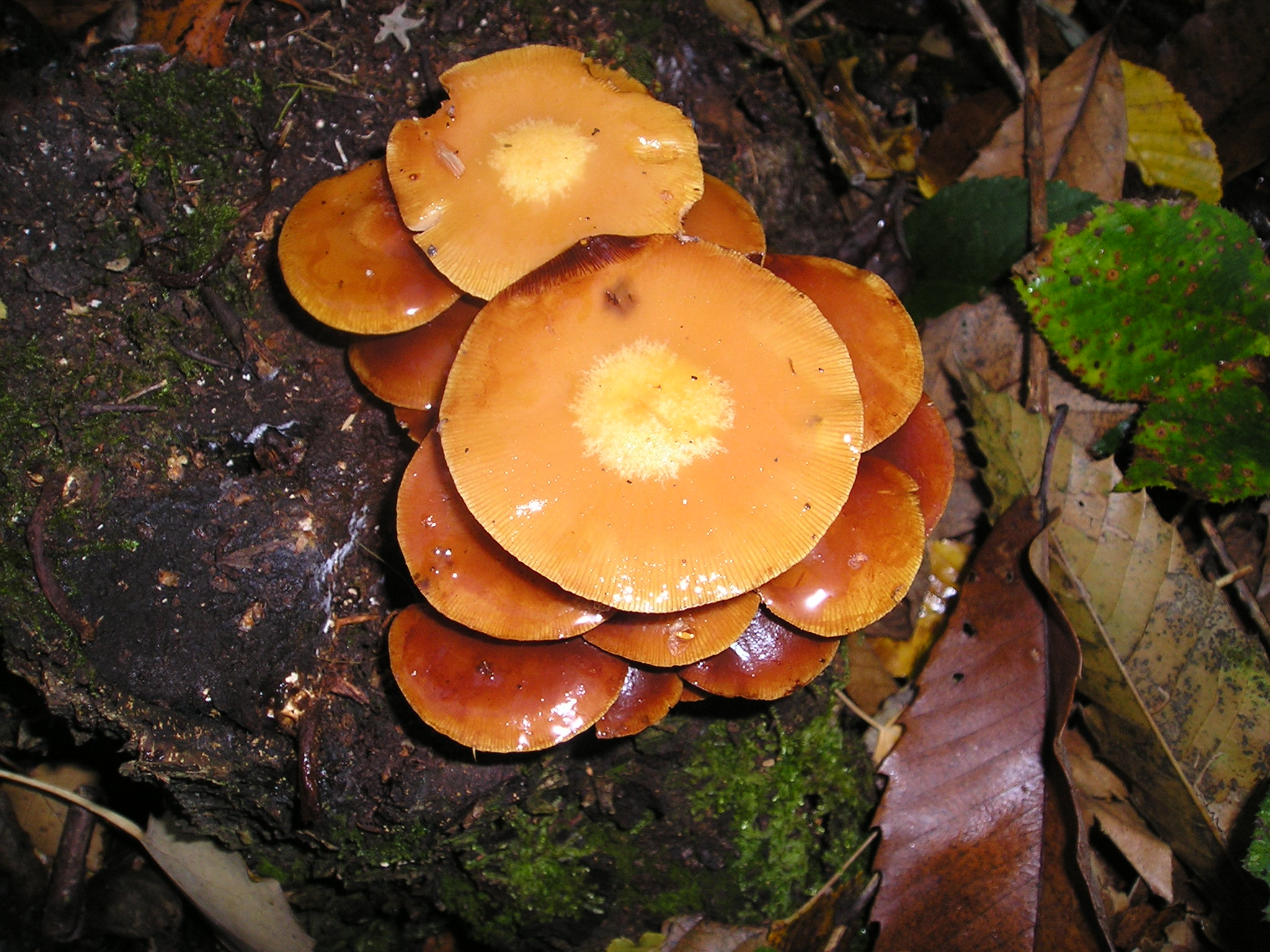 Kuehneromyces mutabilis in a French wood.